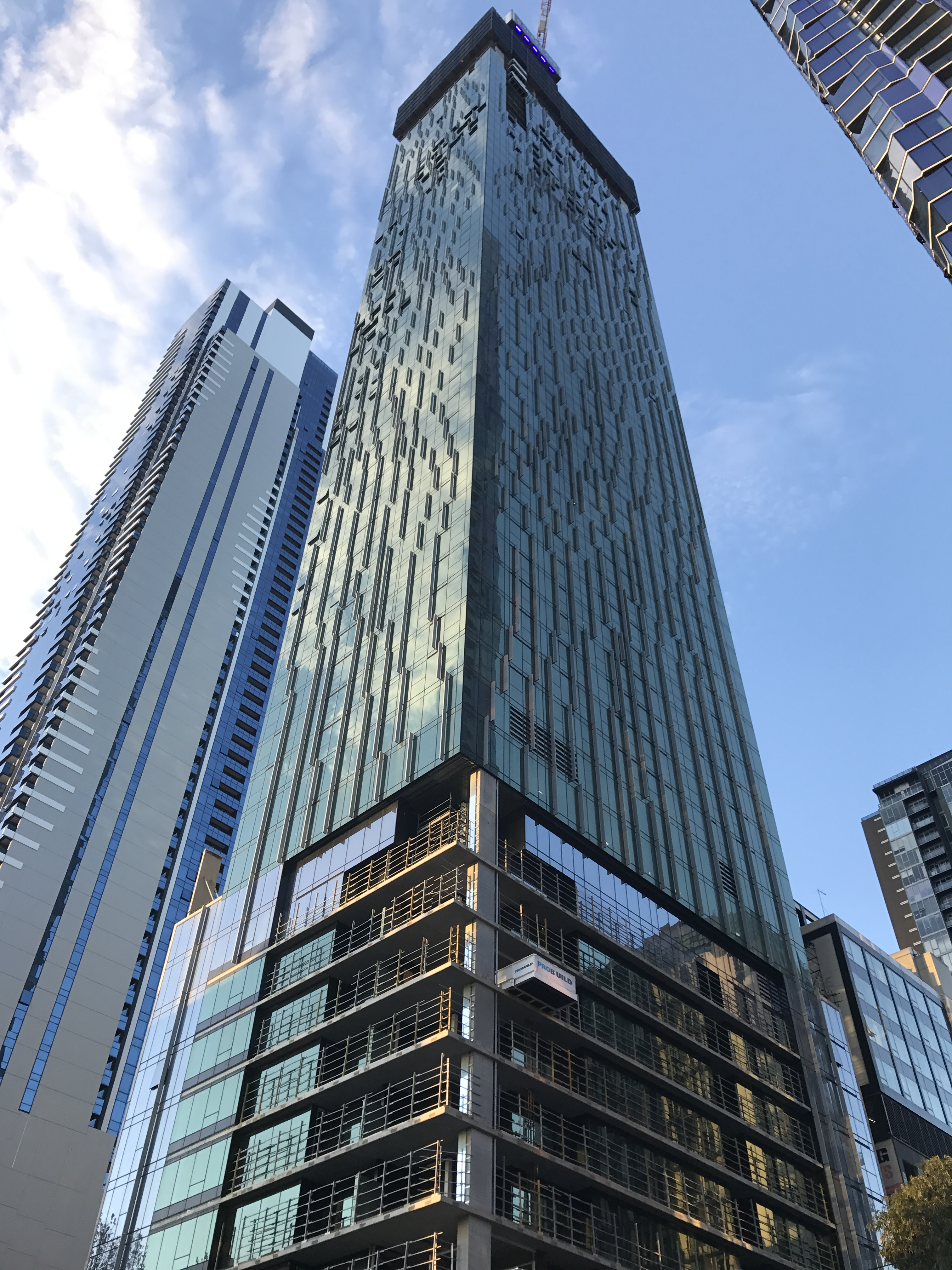 Victoria One, under construction in May 2017